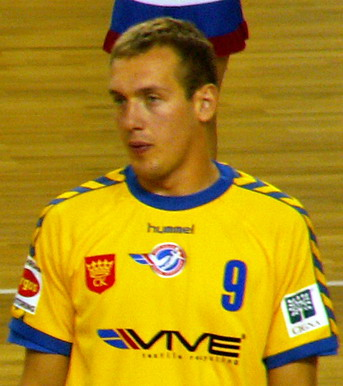 Paweł Podsiadło - Vive Kielce handball player